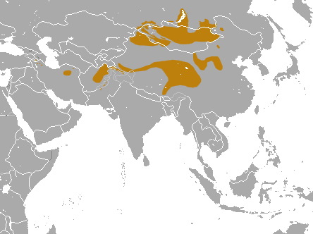 Pallas's Cat (Otocolobus manul) range